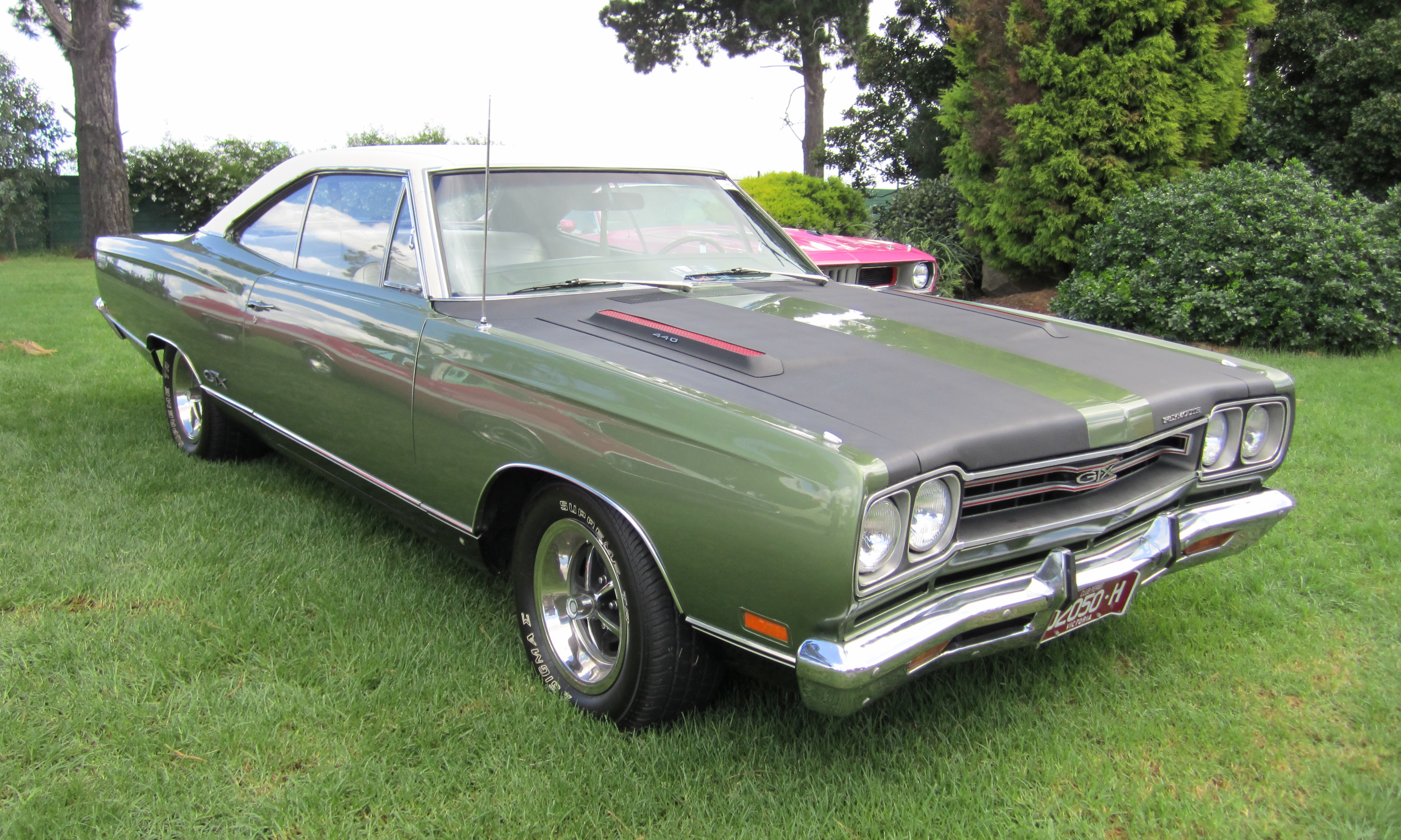 GTXs were made from 1967-74. Top trim level. Available in 2 door hardtop or convertible. Engines; 440 or 426 cu in V8s